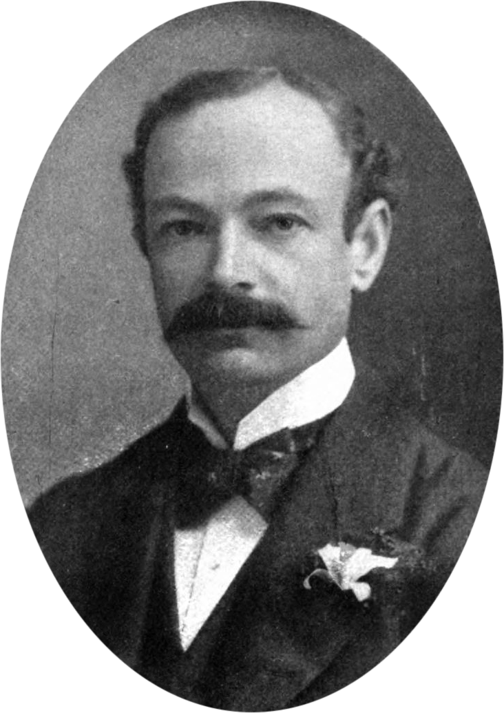 Sir Jeremiah Colman, 1st Baronet (24 April 1859 - 16 January 1942), chairman of J & J Colman Limited